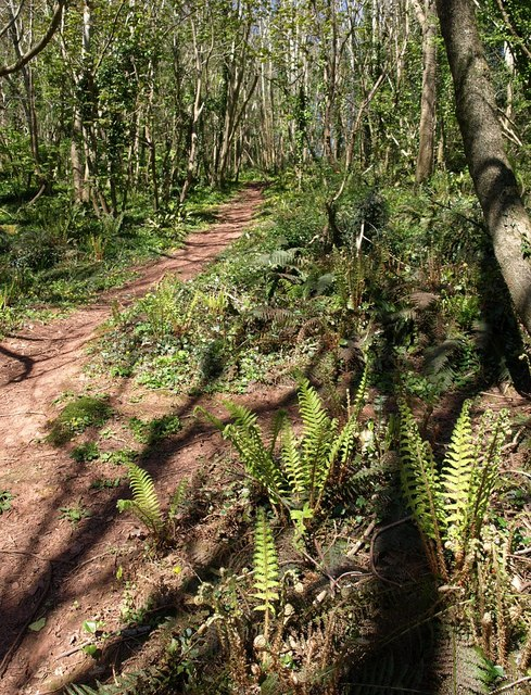 Ferns, Occombe Valley Woods These woodlands are full of ferns. The path is climbing steeply straight up the northern valley side from the housing on Occombe Valley Road.